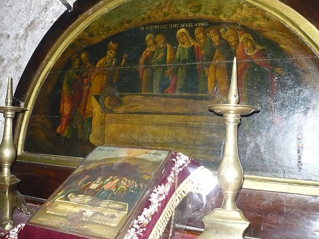 Painting_at_Tomb_of_Mary